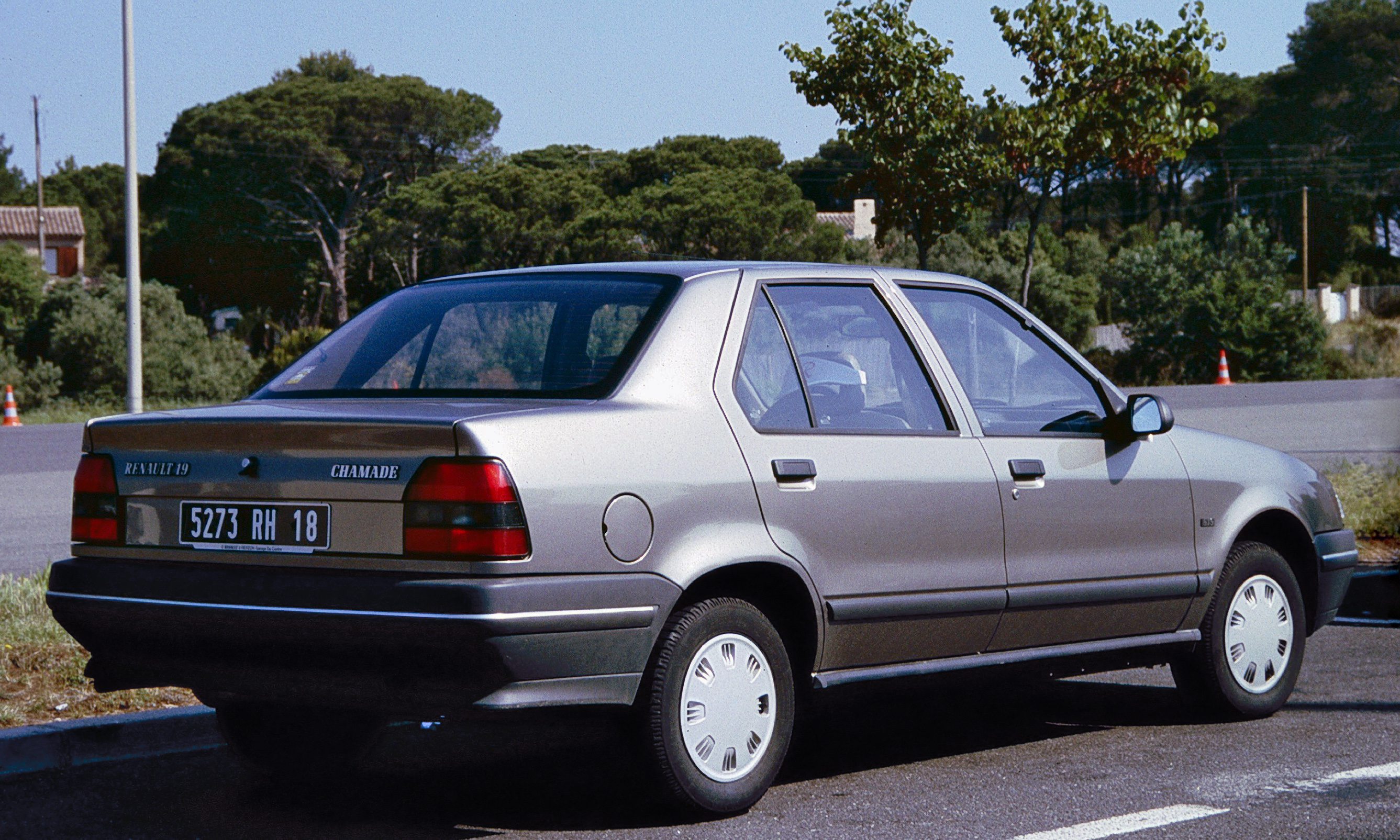 Renault 19 Chamade GTS (Renault 19 notchback). Cher licence plate (somewhere round Bourges).